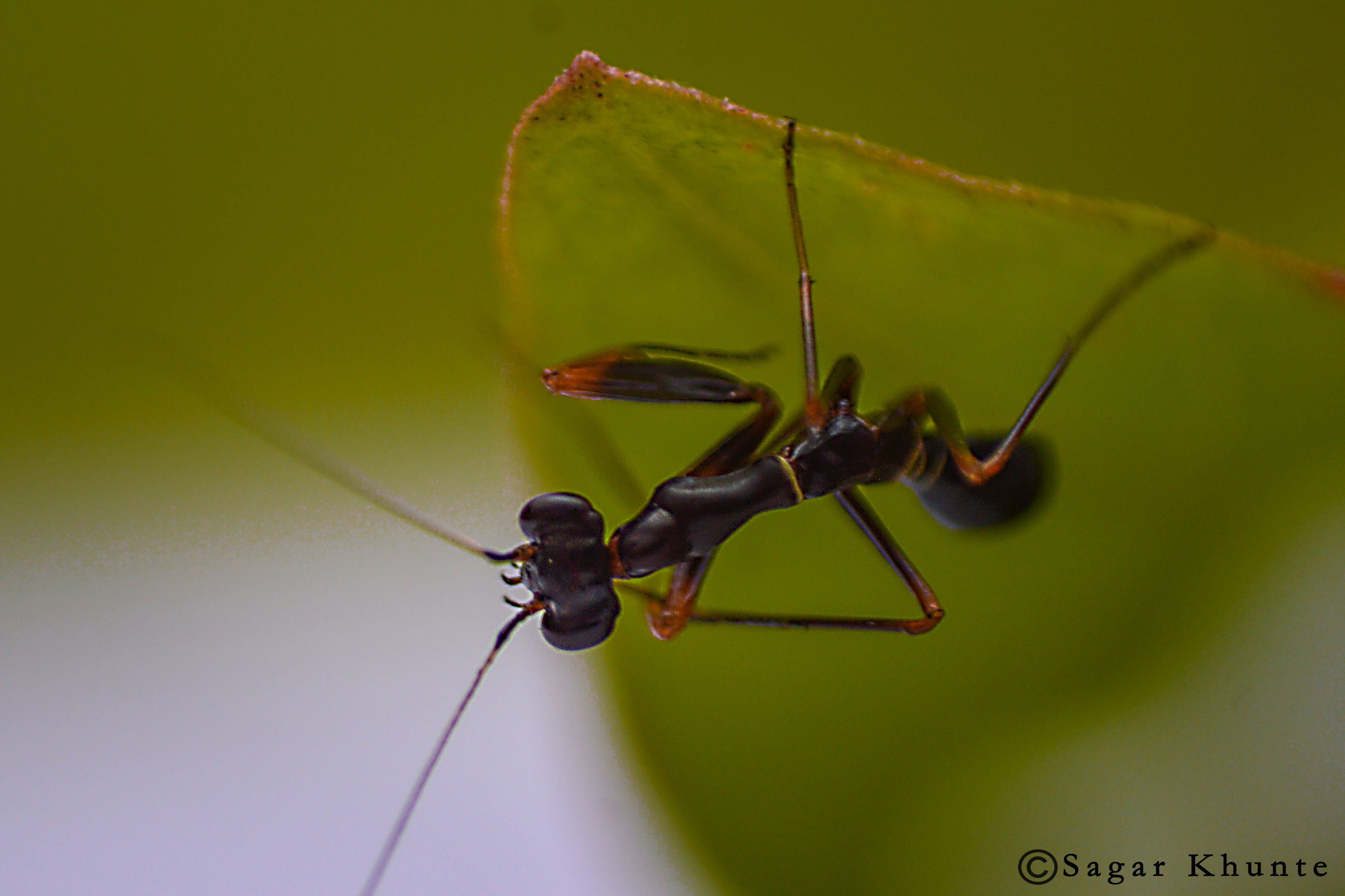 euantissa pulchra